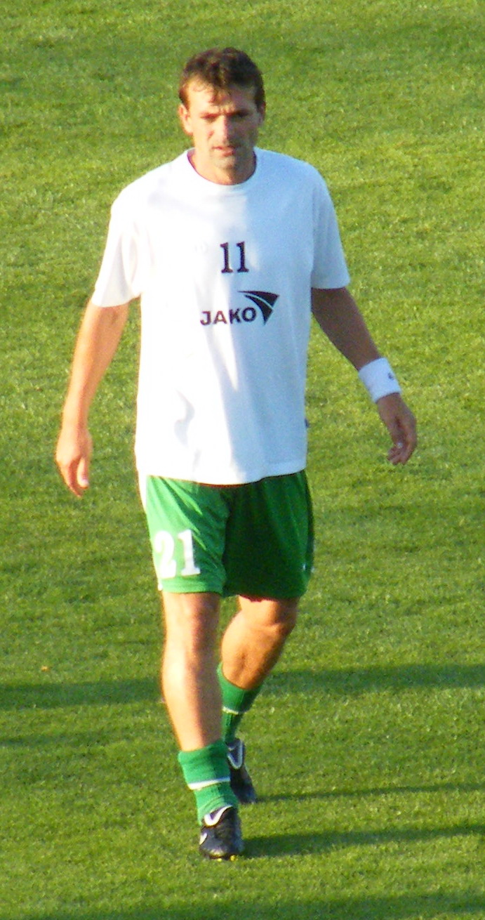 Attila Tököli Hungarian football player